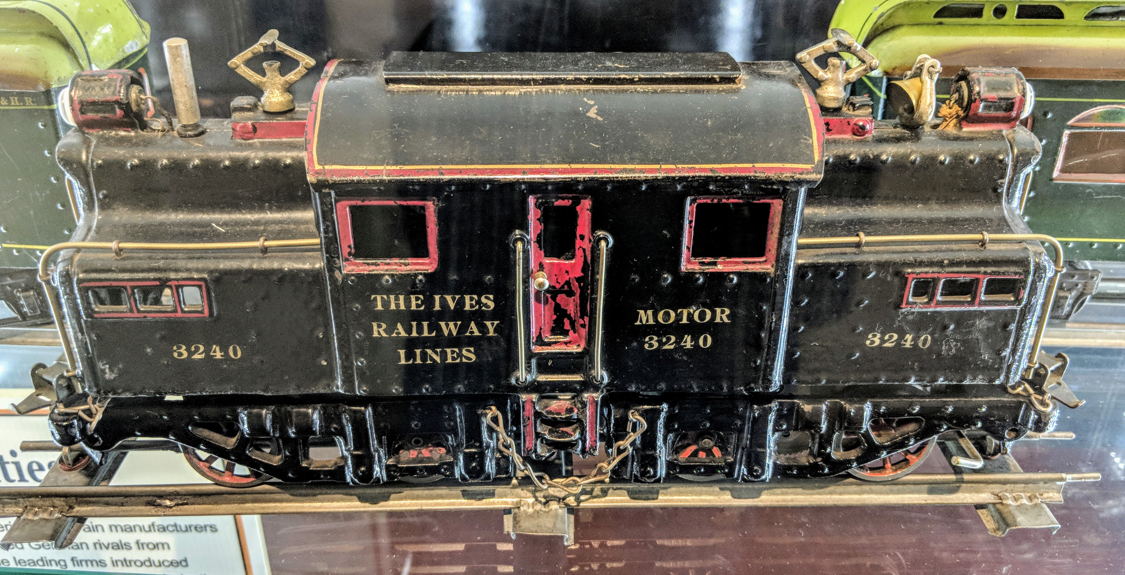 A model railroad locomotive in the collection of the California State Railroad Museum, with a reported date circa 1912. Photo by Jim Heaphy.